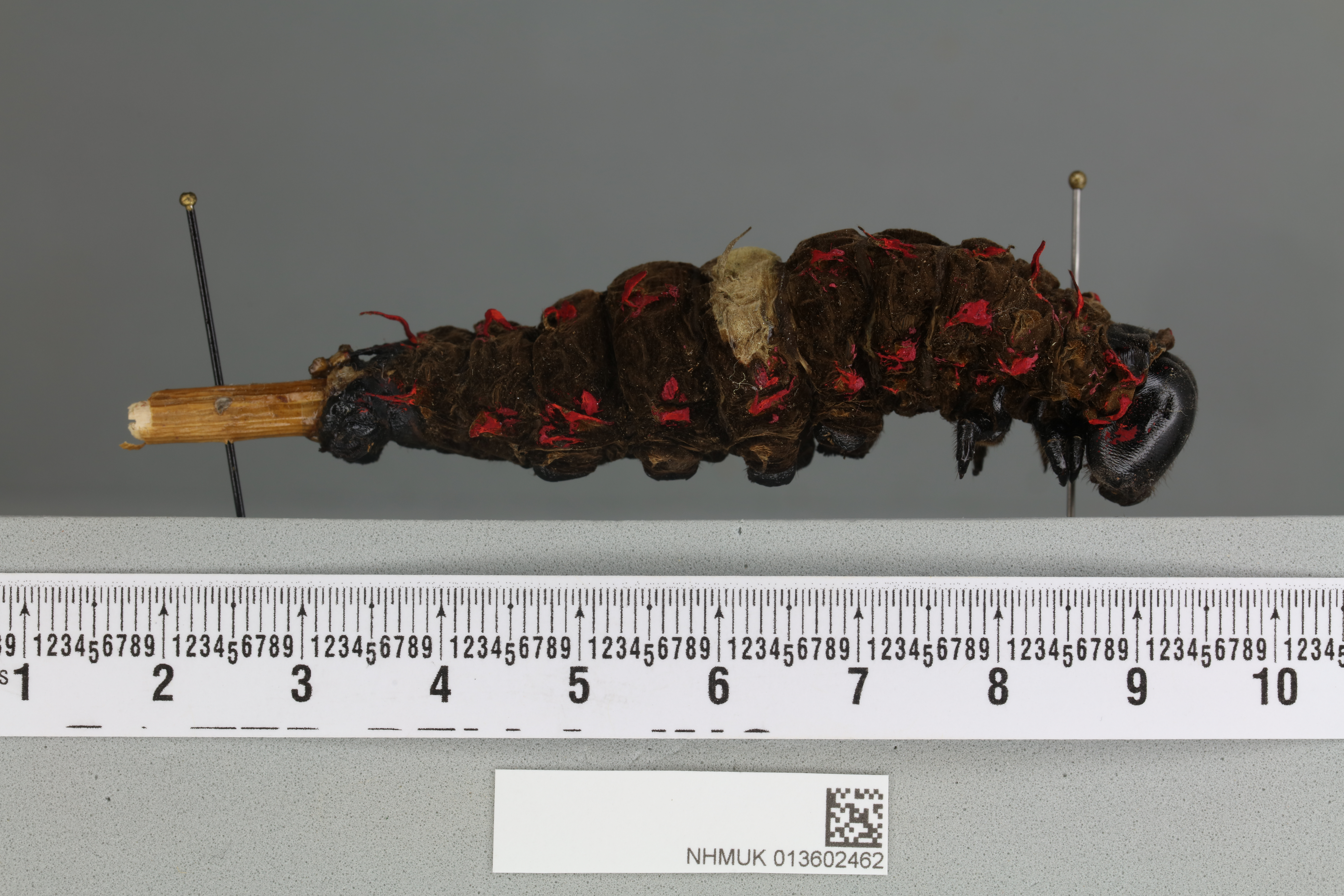 A lateral photograph of the Queen Alexandra Birdwing Butterfly- Ornithoptera alexandrae Rothschild, 1907. A caterpillar.